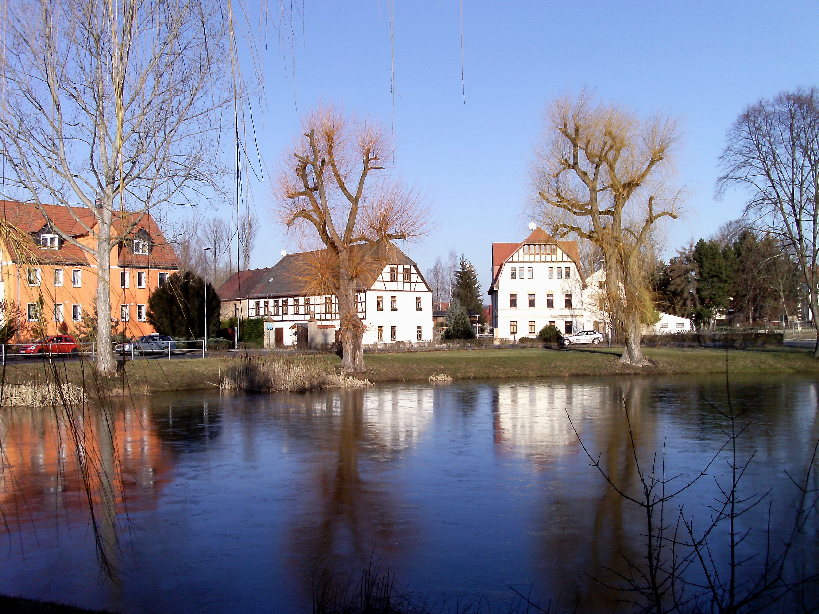 Pond in Zuckelhausen, in the Holzhausen district of Leipzig (Saxony)